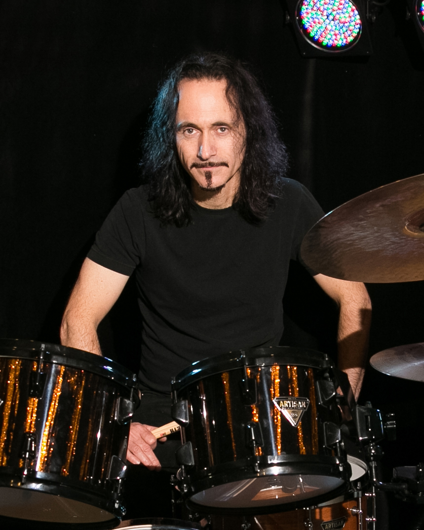 Mader sitting at drum set with black t-shirt